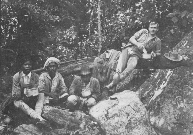 Charles McCann in the field at Kukal, Palni Hills in 1921 during the mammal survey of the BNHS